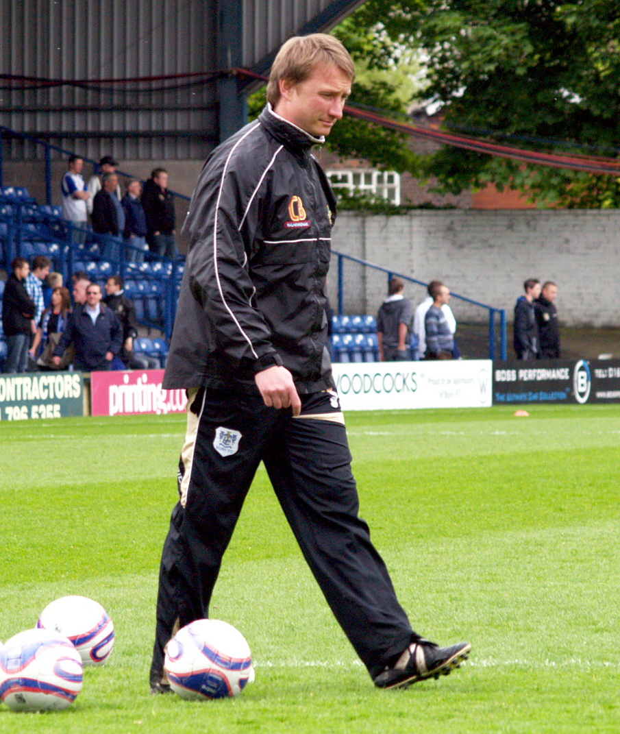 Bury FC assistant manager Chris Brass during the warm up at Gigg Lane, home of Bury Football Club prior to the Bury vs. Shrewsbury Town game. Sunday 10th May 2009